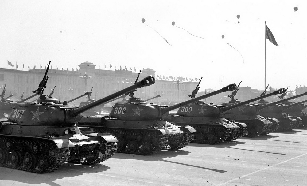 IS-2 in China Anniversary Parade